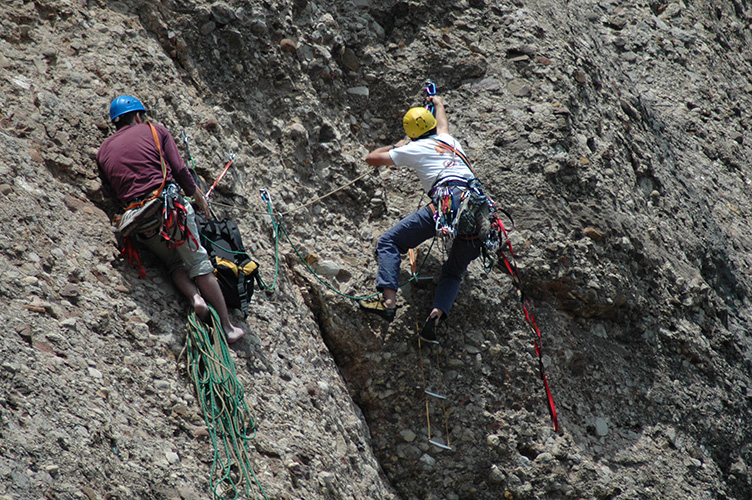 climbing in Montserrat (Catalonia, Spain)